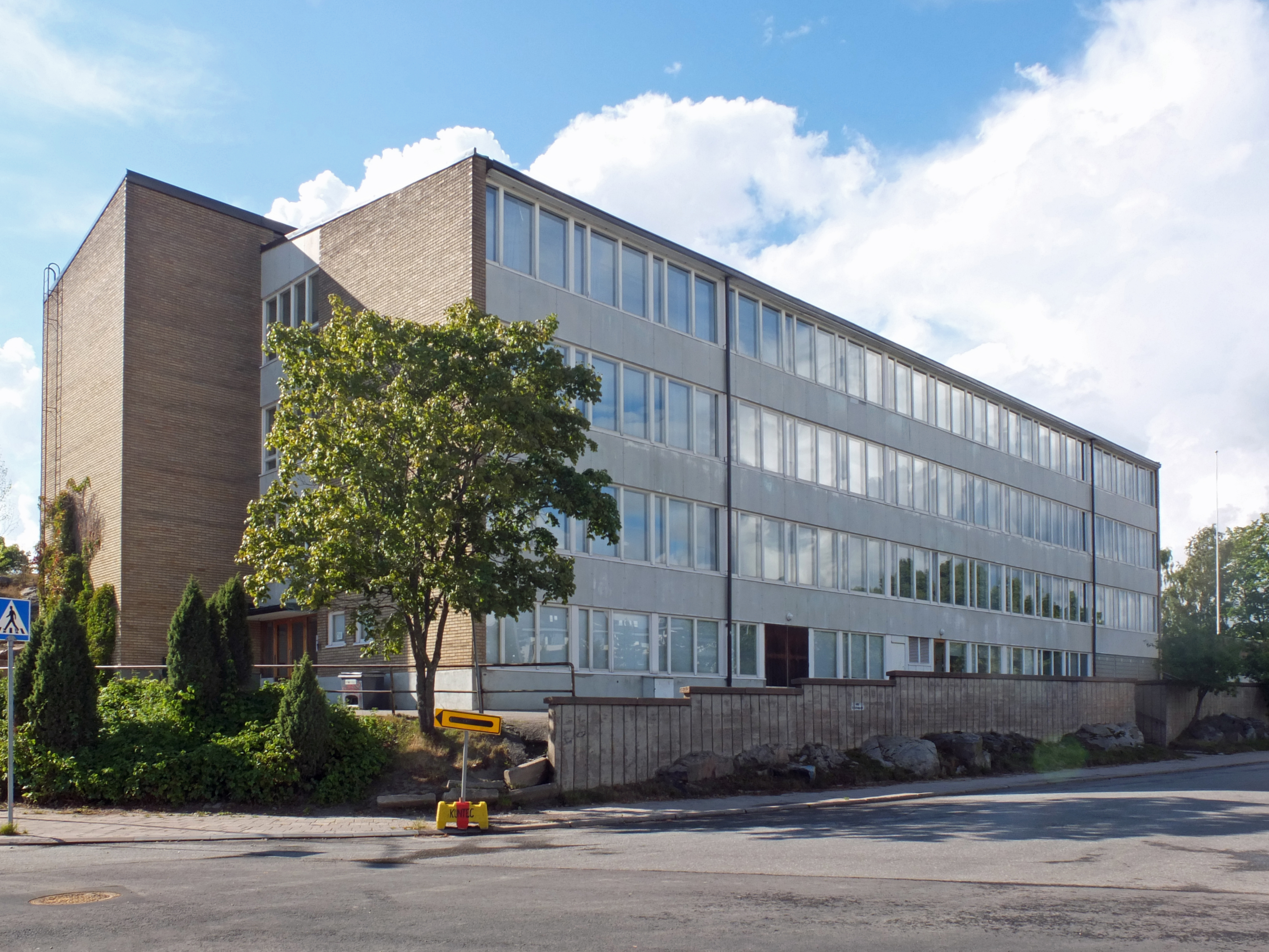 Juhana Herttuan lukio, a former gymnasium or senior high school named after John III of Sweden. Hansakatu 2, Turku, Finland. Architect Aarne Ehojoki, 1960–1961. The building is now used by Topeliuksen koulu, a primary school named after 19th century writer Z. Topelius.